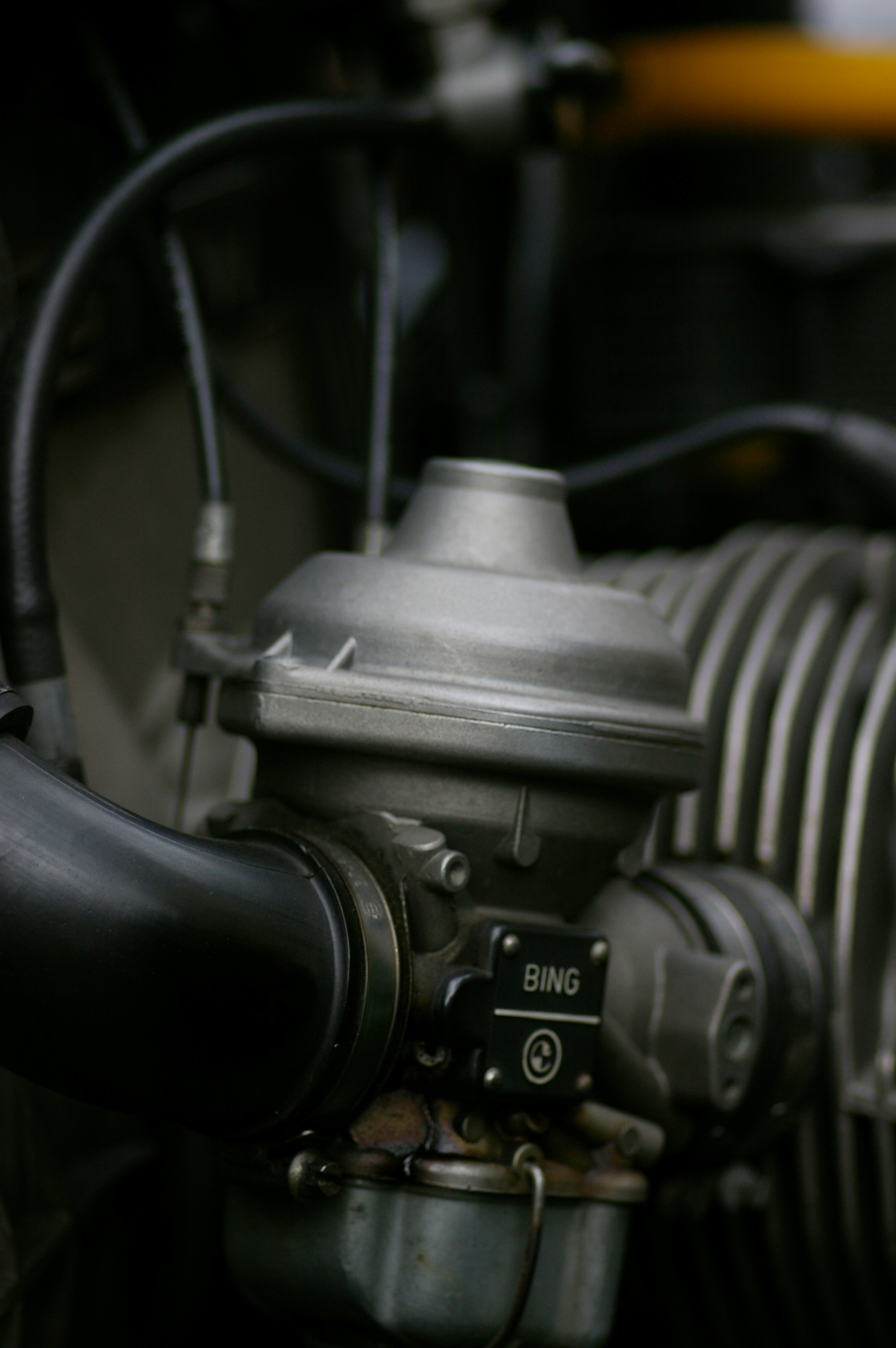 A Bing carburettor fitted to a BMW R100GS motorcycle